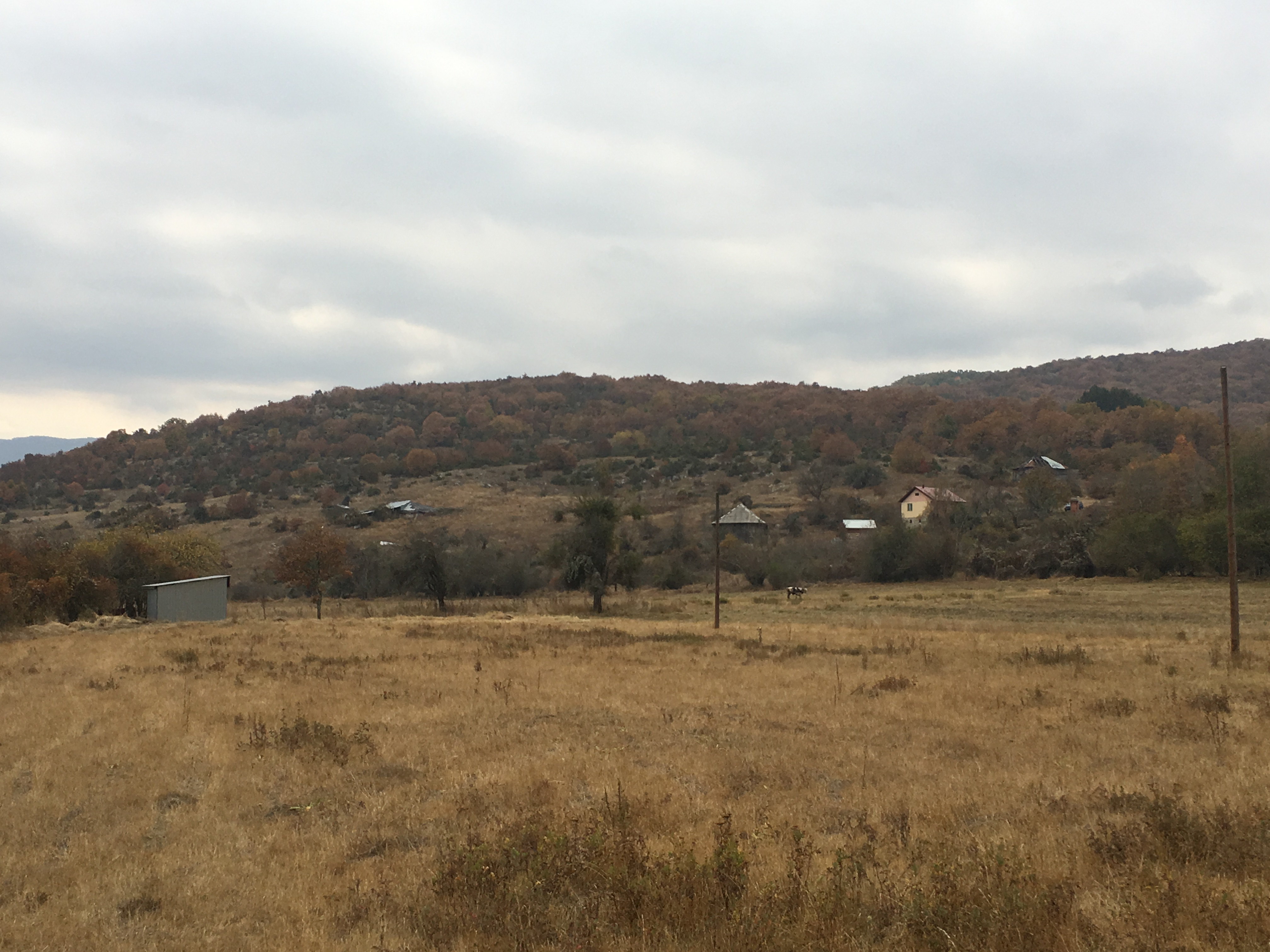 Wikiexpedition to Kopačka